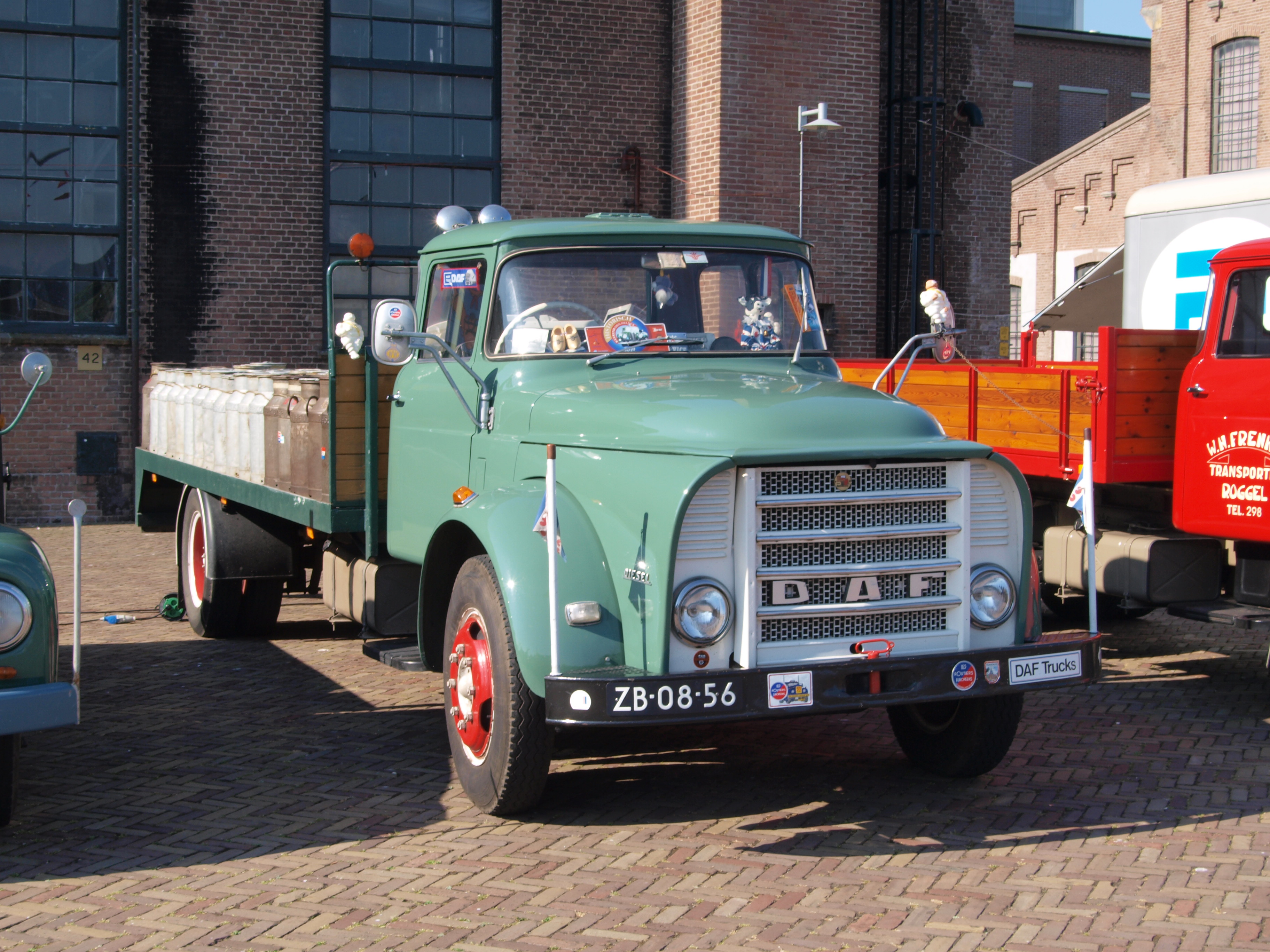 Photographed at Den Helder, The Netherlands. OLYMPUS DIGITAL CAMERA